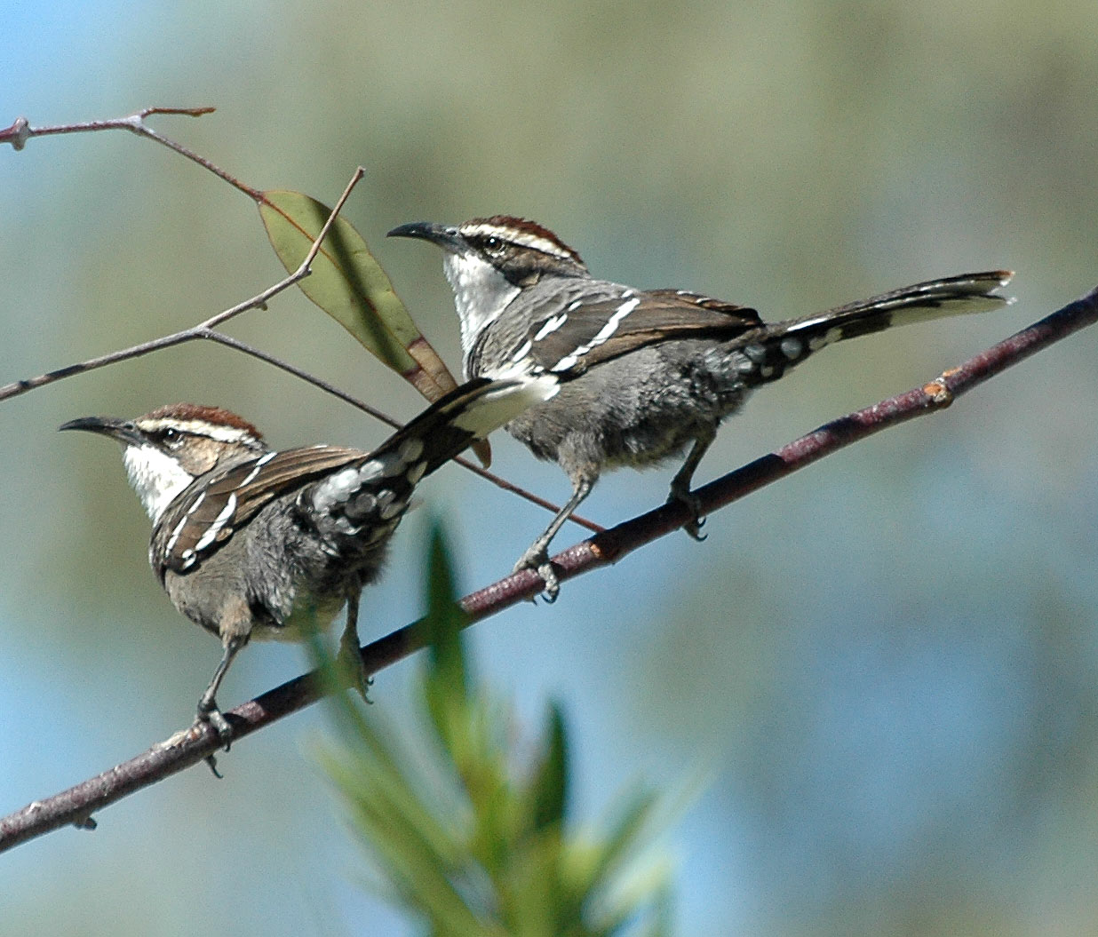 Chestnut-crowned Babbler (Pomatostomus ruficeps) Bowra, SW Queensland, Australia